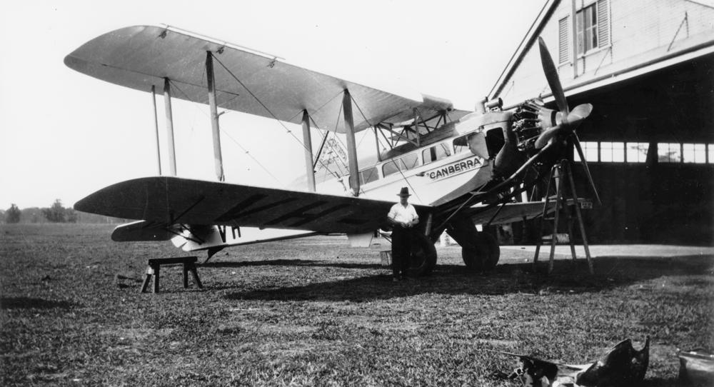 Canberra, a de Havilland DH.61 Giant Moth, VH-UHW, ca. 1930 This biplane was destroyed on 2 November 1934 at Kaiapit, New Guinea. (Description supplied with photograph).